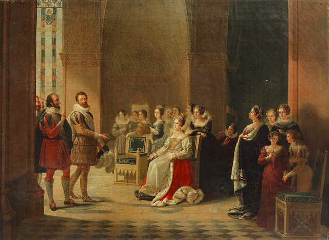 Henry IV of France & Catherine de Medici (1819), an early painting by French artist and salonnière Marguerite-Virginie Ancelot.